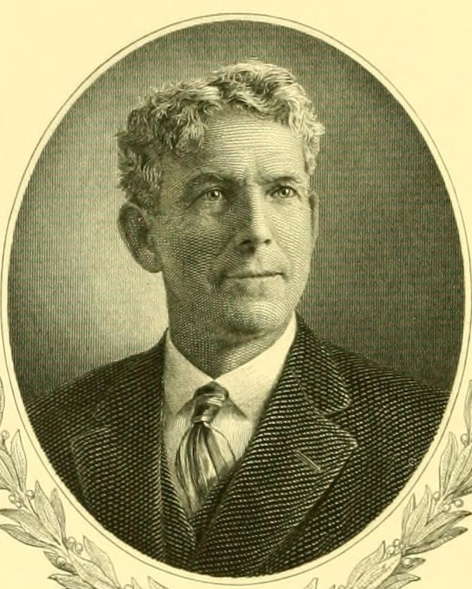 Alexander C. Mitchell, Kansas Congressman